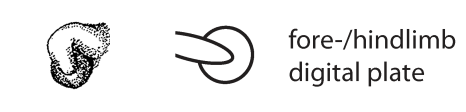 Standard Event System character depiction